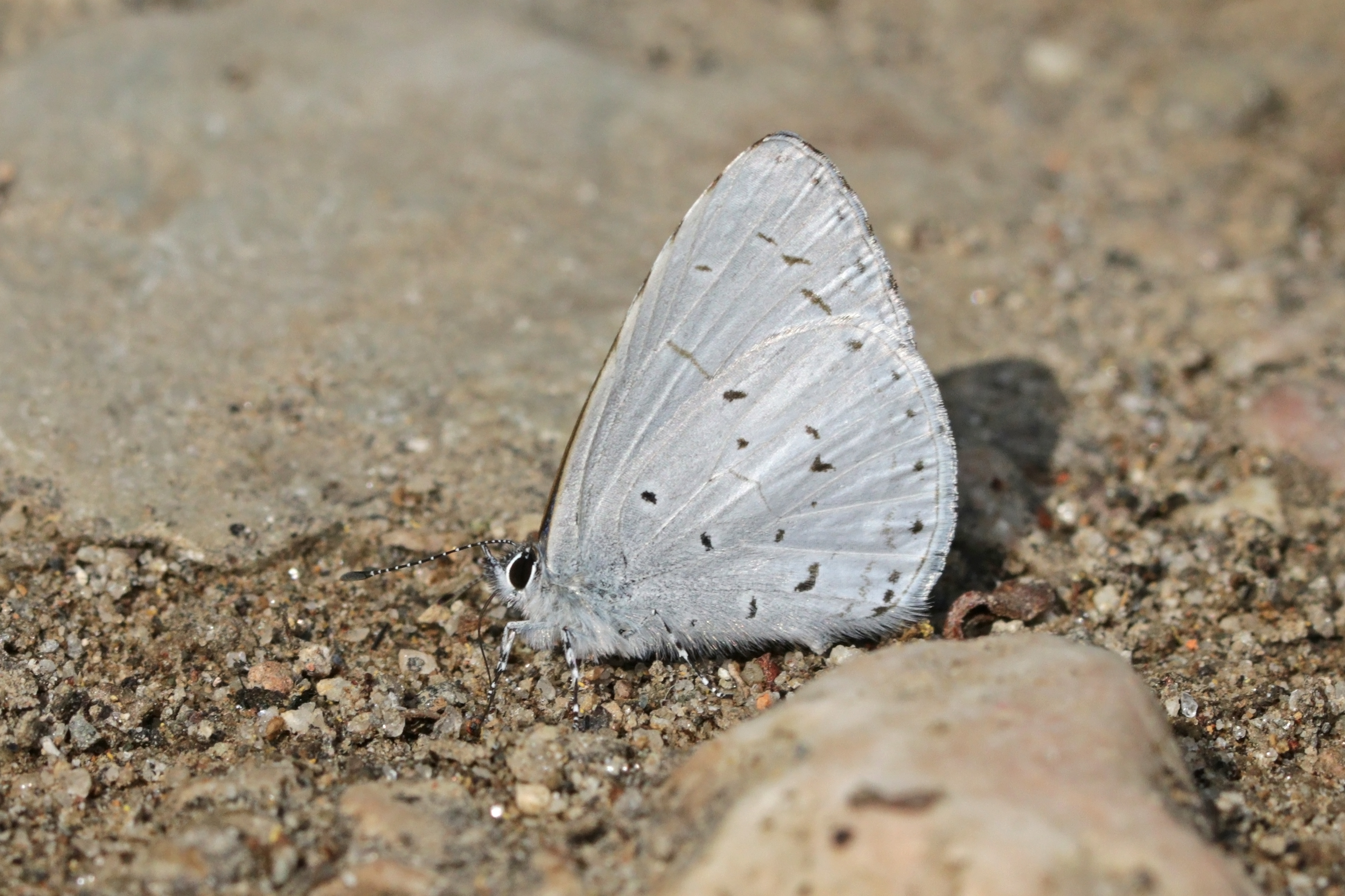 Pale hedge-blue (Udara dilecta), National Botanical Garden, Godawari, Nepal